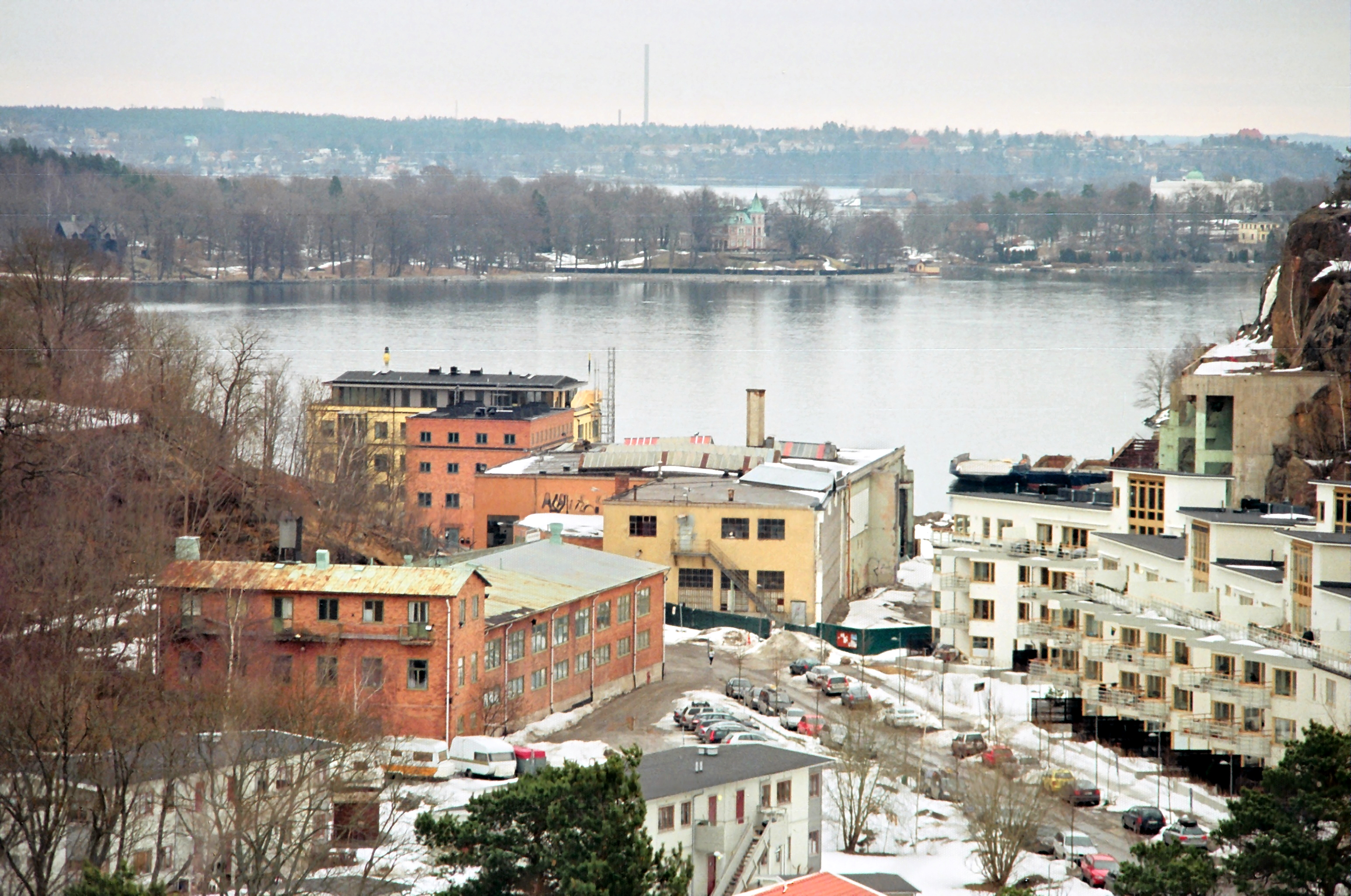 Finnboda, seen from Henriksdalsberget.